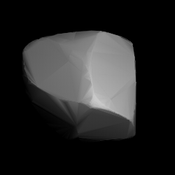 3D convex shape model of 732 Tjilaki, computed using light curve inversion techniques. J. Hanuš, J. Ďurech, M. Brož, B. D. Warner (June 2011). "A study of asteroid pole-latitude distribution based on an extended set of shape models derived by the lightcurve inversion method". Astronomy and Astrophysics 530: A134. ISSN 0004-6361. arXiv